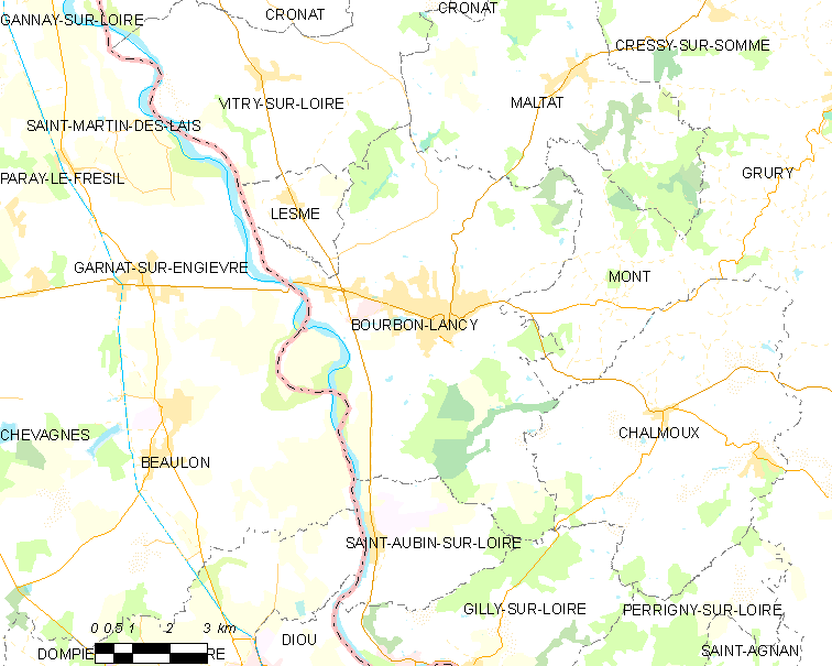 Map of French municipality